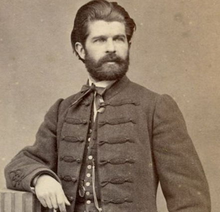 Picture of Balázs Orbán (1829-1890) taken in 1860s